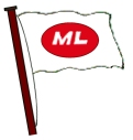 Graphic representing the flag flown by ships in the Manchester Liners' fleet.